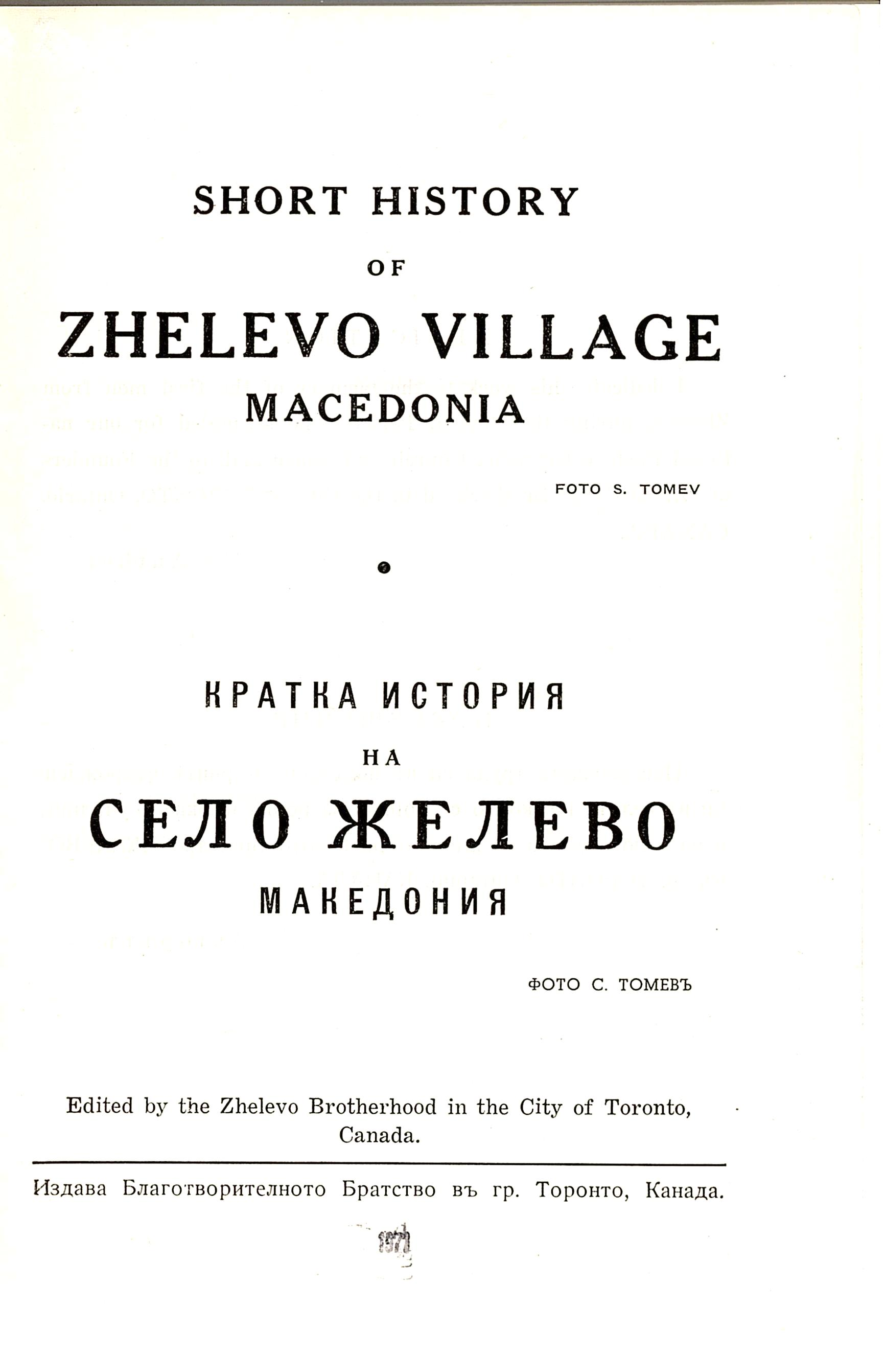 Foto Tomev, Short History of Zhelevo Village, Toronto, 1971